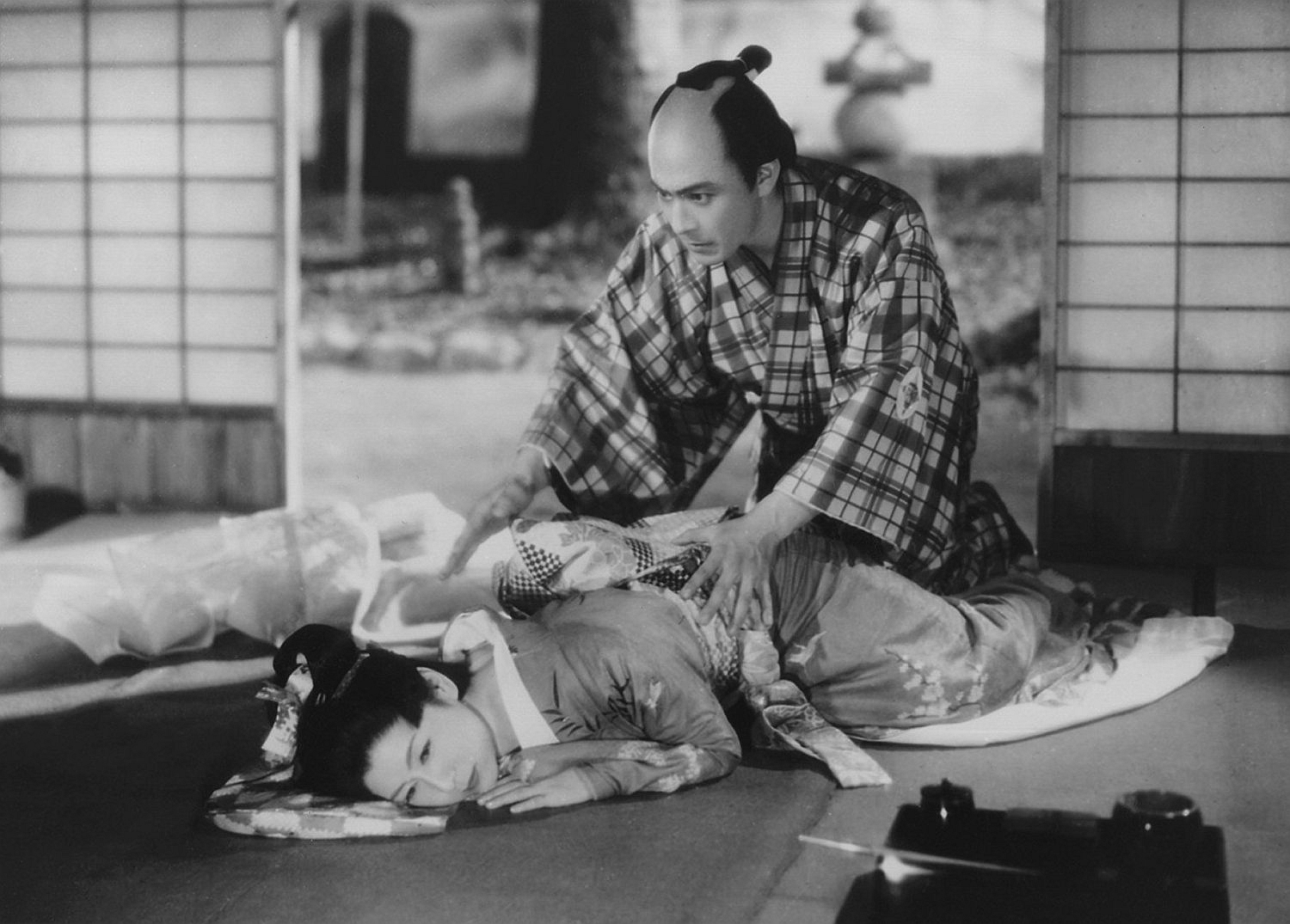 Toshirō Mifune and Kinuyo Tanaka in Saikaku ichidai onna (1952) directed by Kenji Mizoguchi